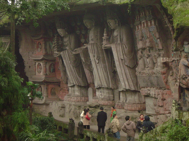 The Three Worthies of Huayan, Dazu Rock Carvings on Mount Baoding, Dazu County, near Chongqing, China